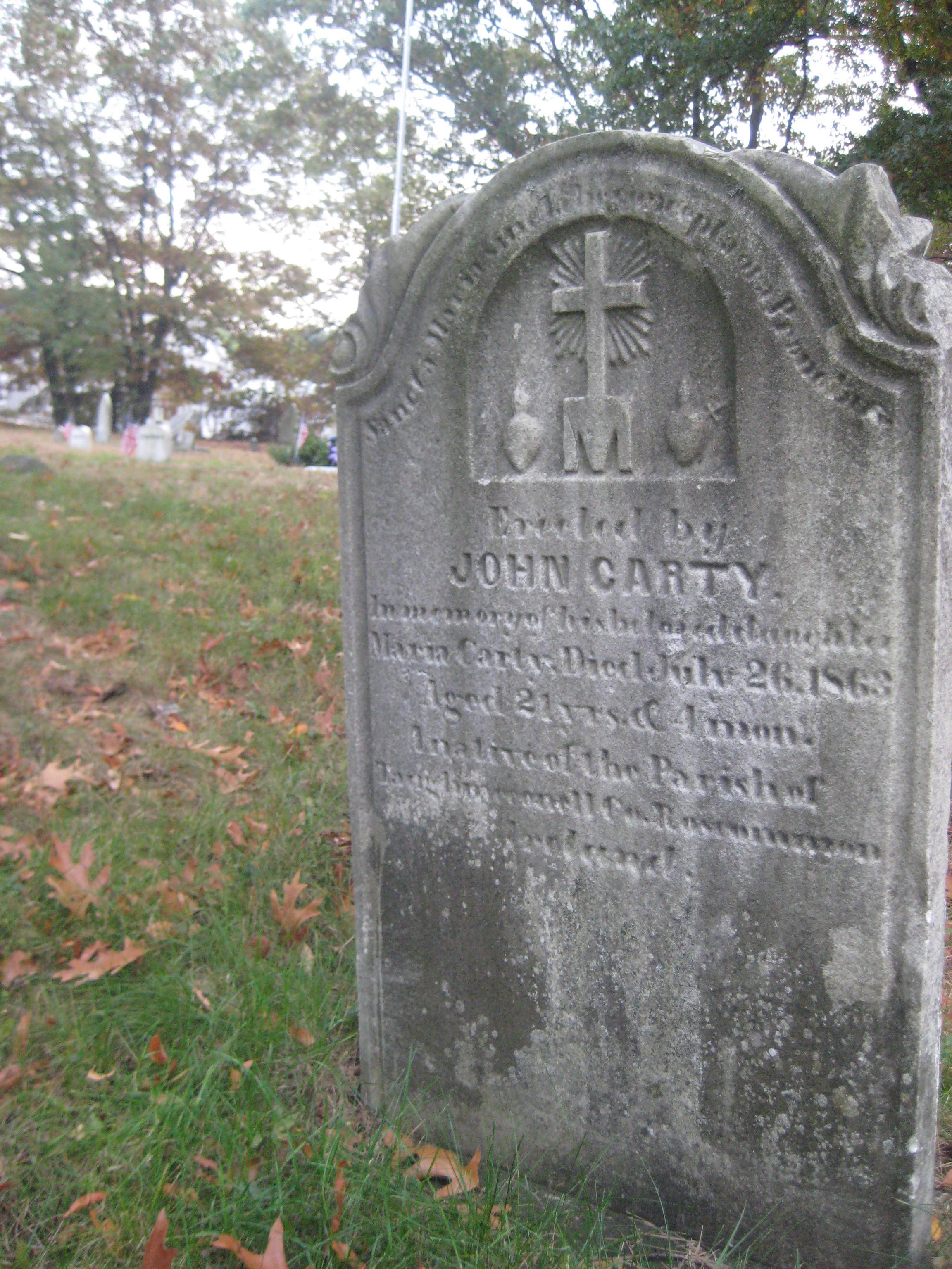 A 19th century gravestone in the Tollgate Cemetery of Forest Hills, Boston, Massachusetts erected in memory of native of Taughmaconnell, County Roscommon, Ireland born shortly before The Great Hunger. October 2007 photo by John Stephen Dwyer